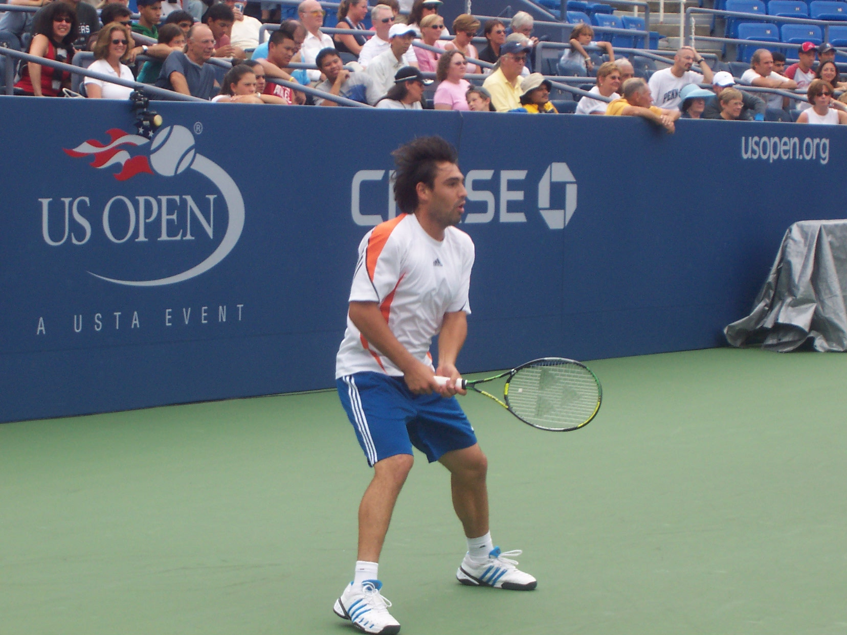 Marcos Baghdatis At The 2007 US Open